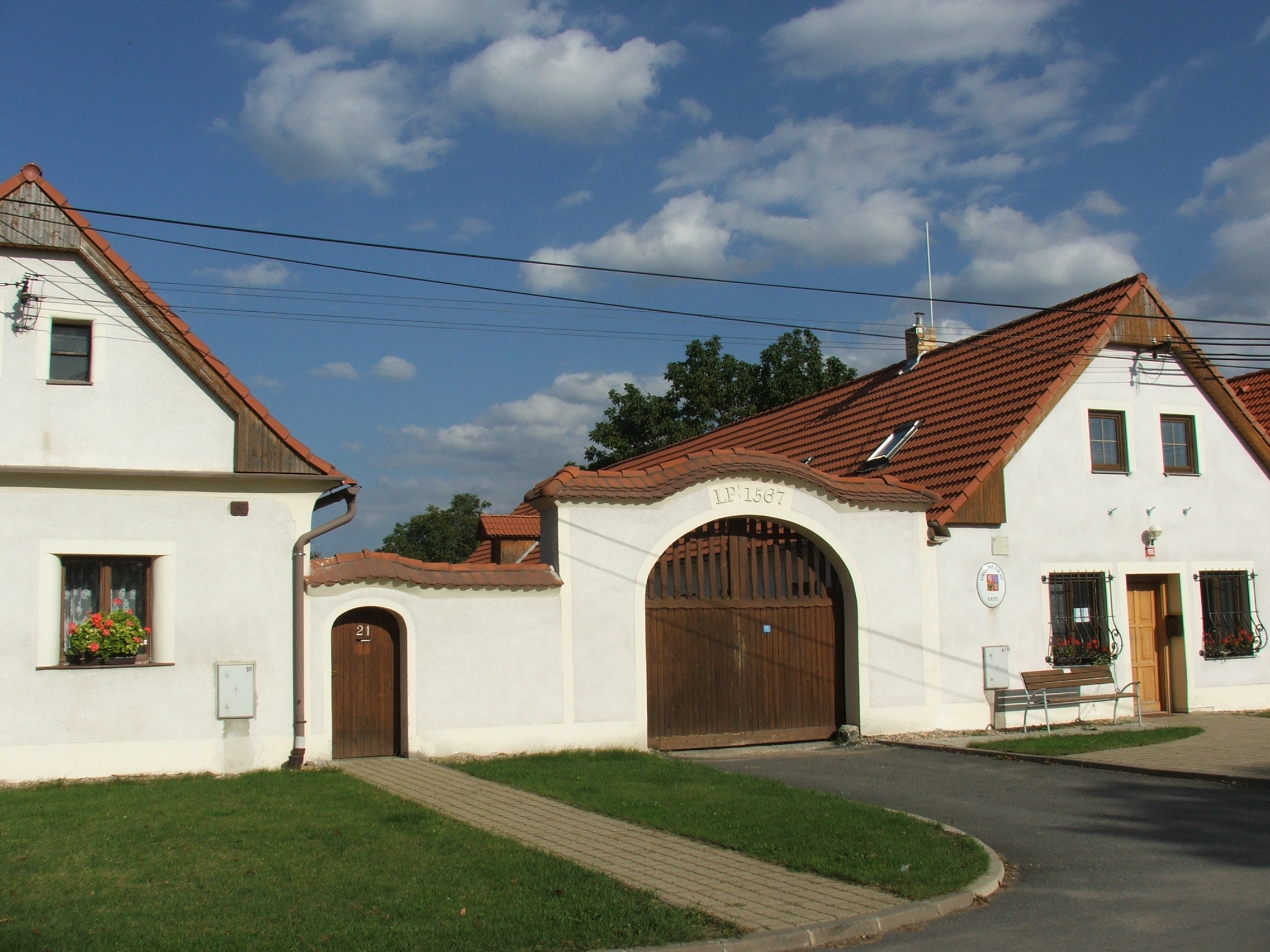 Lety, Prague-West District, Central Bohemian Region, the Czech Republic. Municipal office.